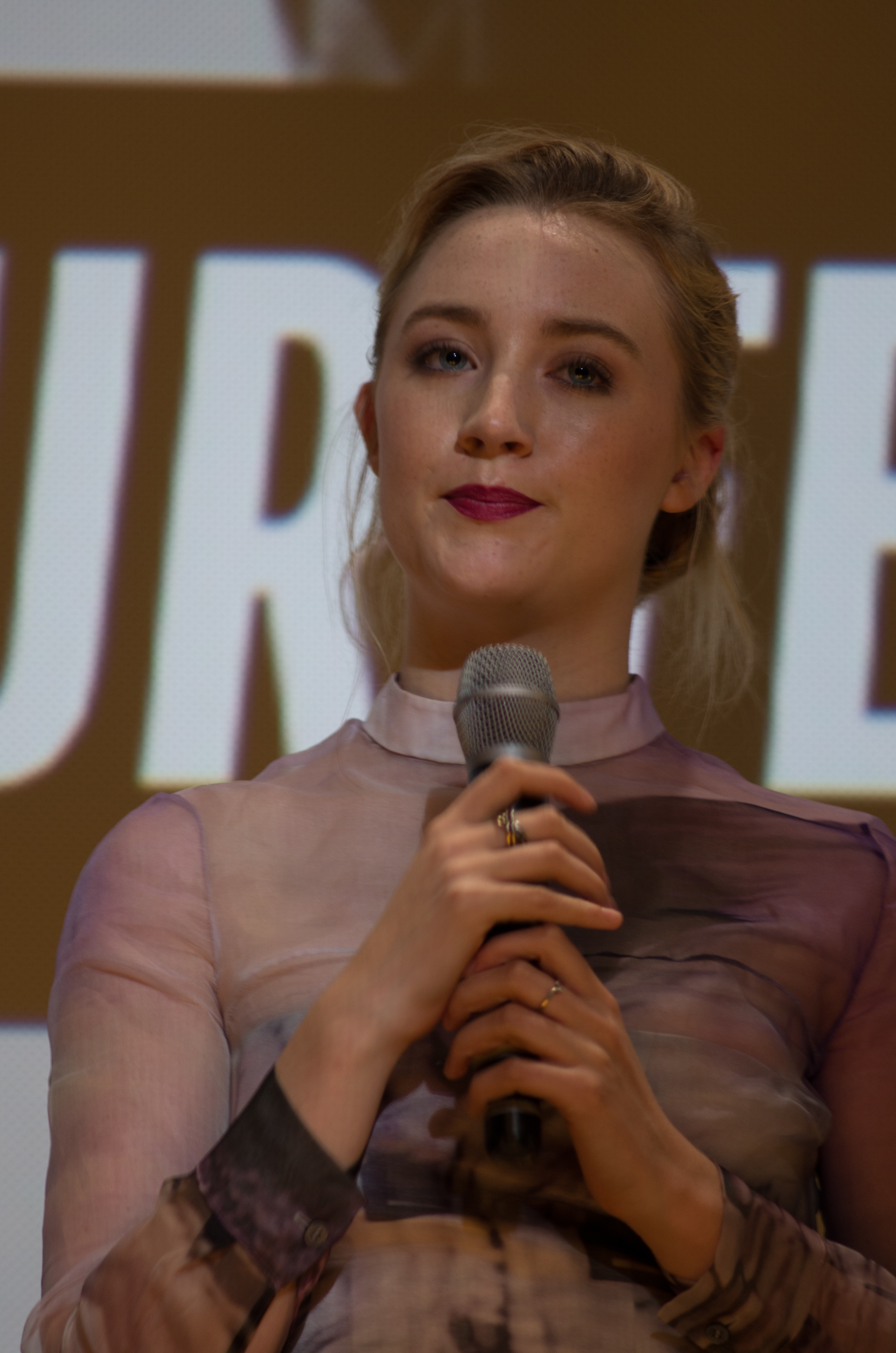 Saoirse Ronan at a public speaking engagement